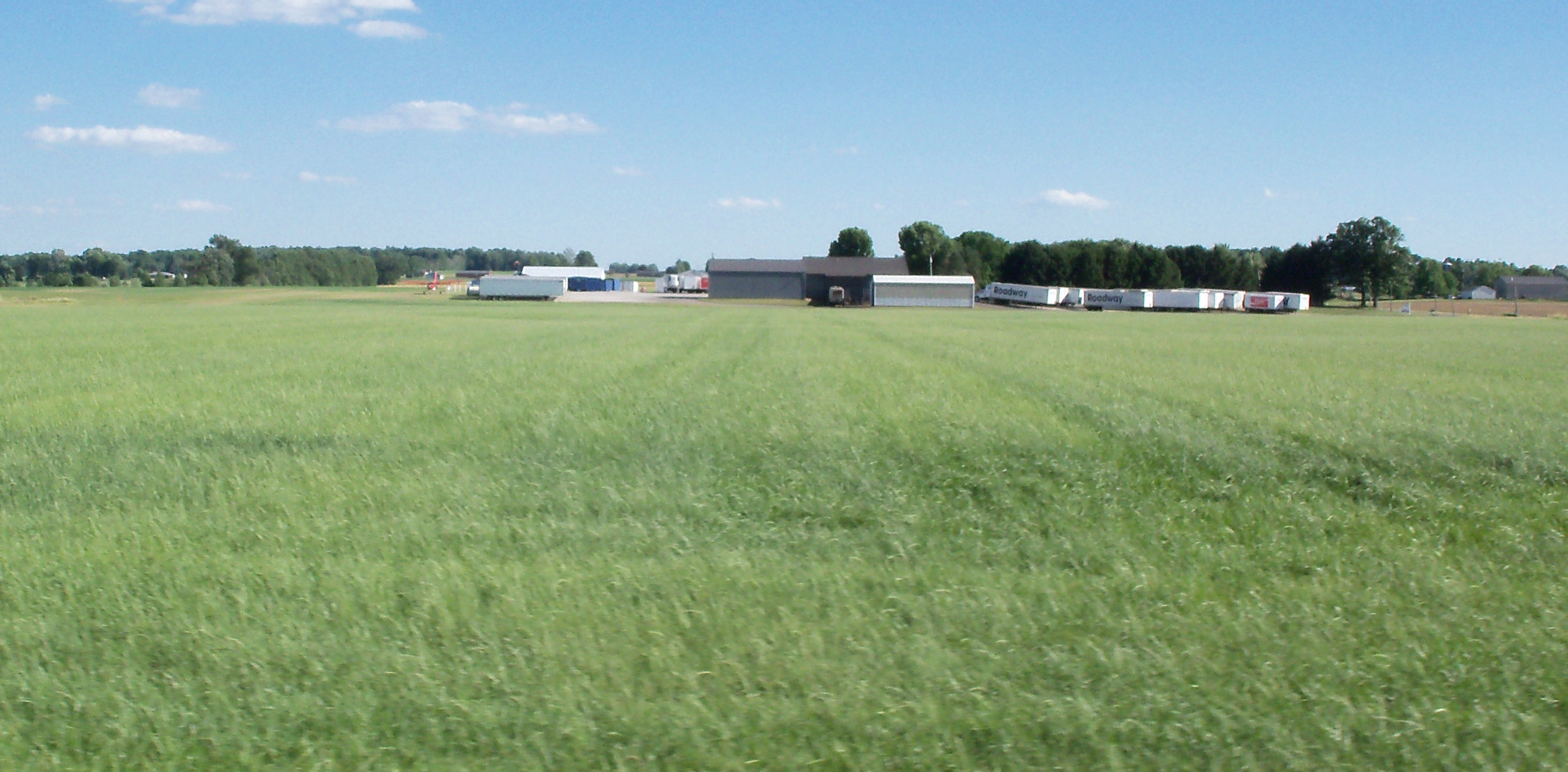 At this airfield near Rittman, Ohio, one can learn skydiving.